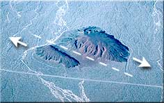 "The less than 300,000 year old Split Cinder Cone was created by magma that followed a fault line. That same fault has since moved right laterally, tearing the small volcano in half. Split Cinder Cone is in Death Valley National Park, Inyo County, California. (Tom Bean, NPS image)".